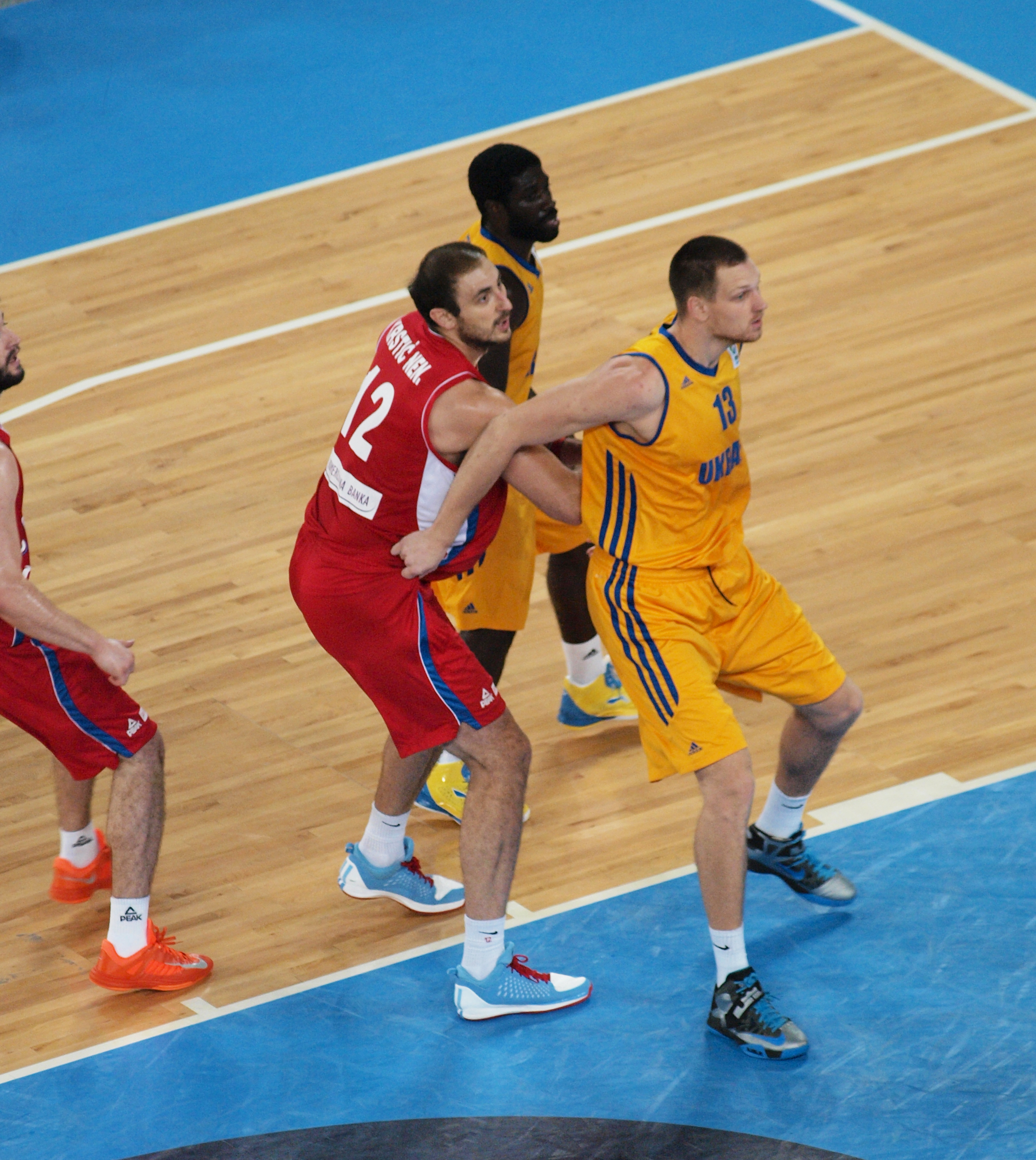 Nenad Krstić in action. Eurobasket 2013. Српски (ћирилица): Крле у акцији против Украјине, Еуробаскет 2013.